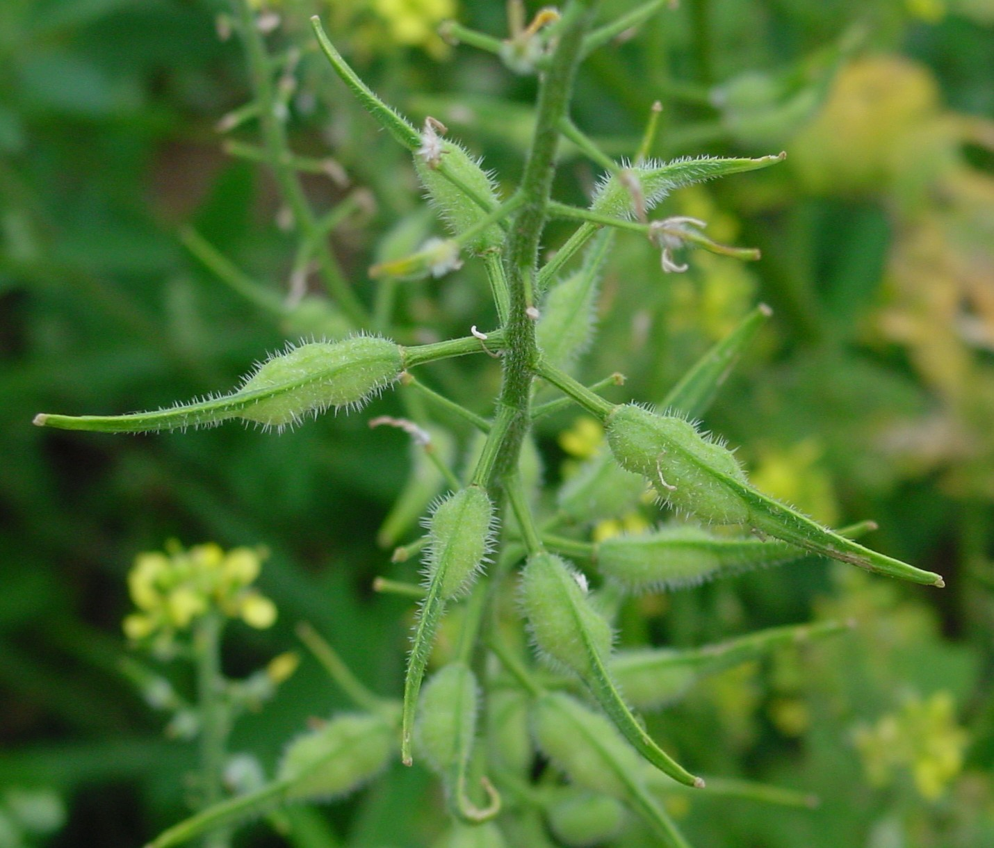 Fruits of Sinapis alba